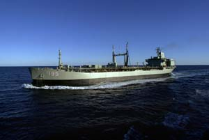 OFF THE COAST OF QUEENSLAND, Australia, May 9, 2001 -- With HMAS Westralia nearby you never need to worry about fuel. The Australian ship refueled at sea HMCS Algonquin (DDG 283) during Exercise Tandem Thrust.